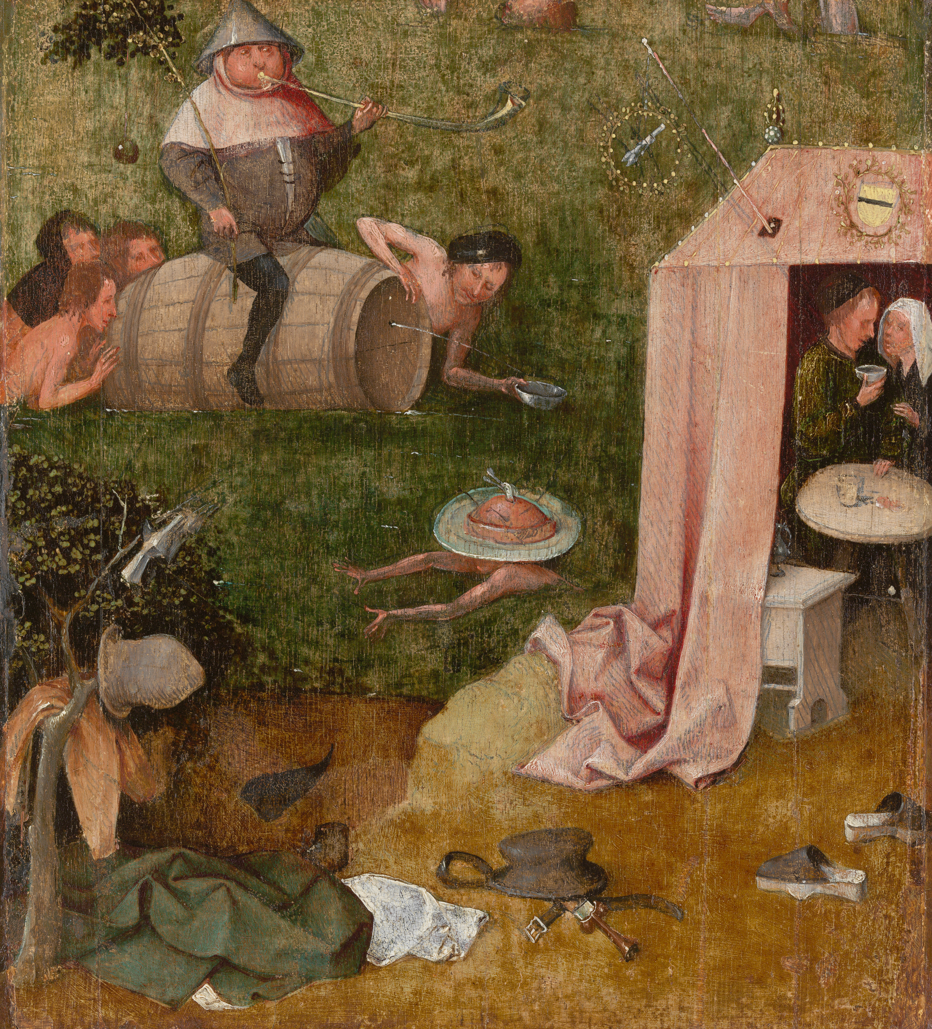 Fragment of the left wing of a triptych; see File:Jheronimus Bosch 011.jpg for the other fragment of the left wing of this triptych, File:Jheronimus Bosch 050.jpg for the right wing, and File:Jheronimus Bosch 112.jpg for the exterior.